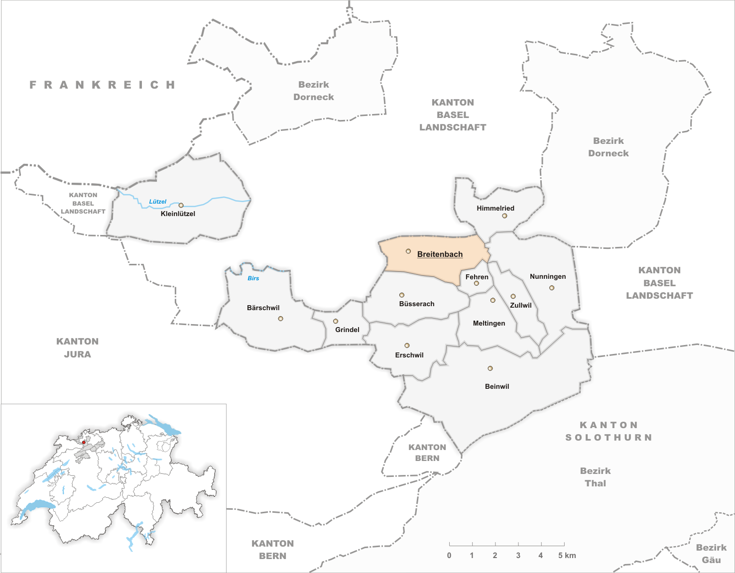 Municipality Breitenbach